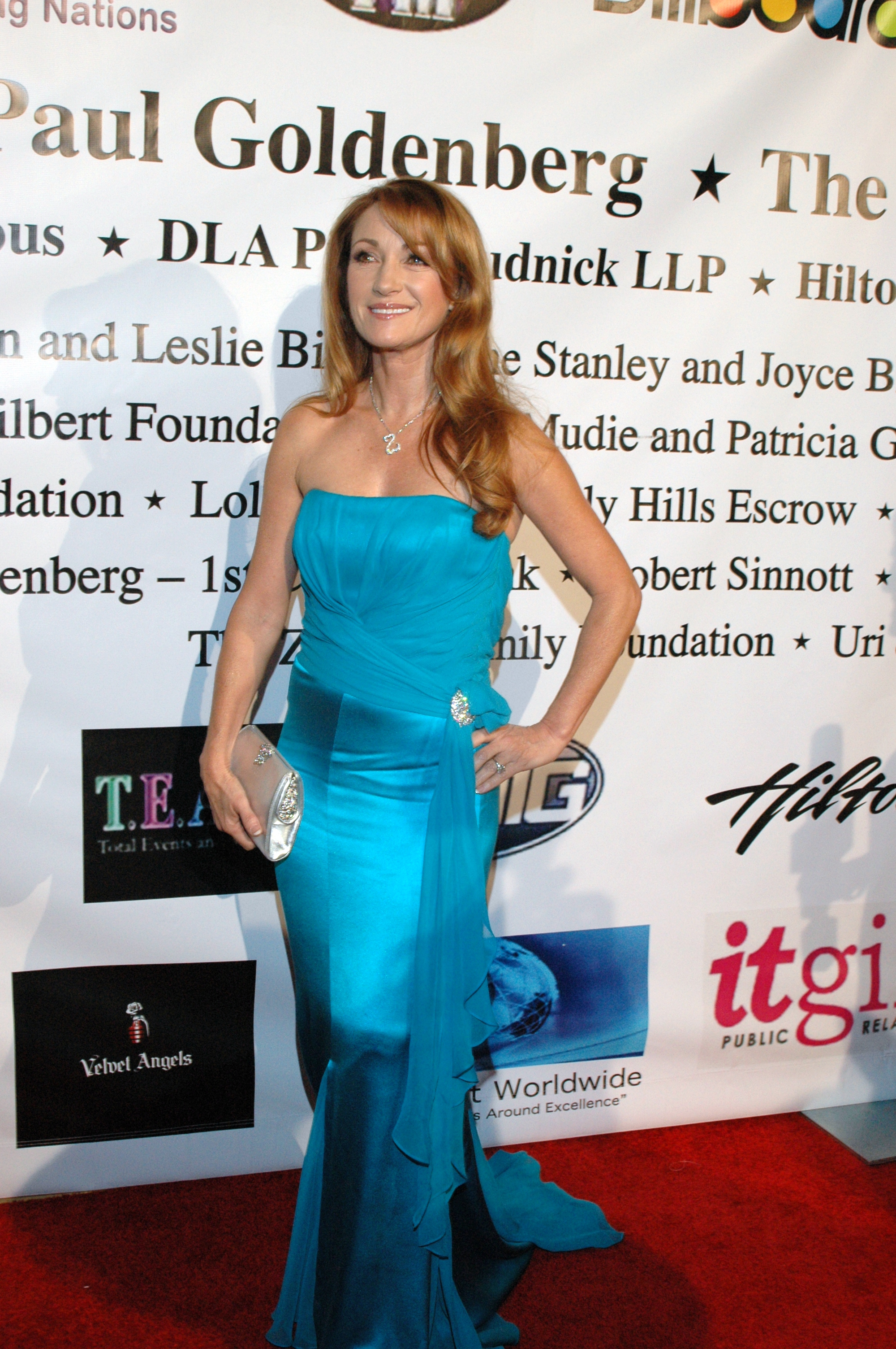 Jane Seymour on the Children Uniting Nations Academy Award Viewing Party red carpet, at the Beverly Hilton, Beverly Hills, Los Angeles, California. Held preceding the start of the Oscar telecast.